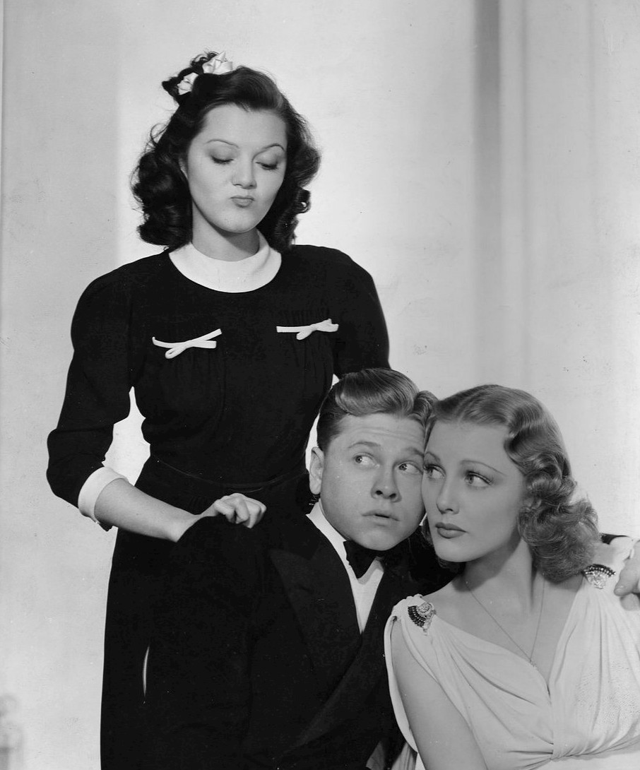 Still with Ann Rutherford, Mickey Rooney and Virginia Grey in a scene from the American film The Hardys Ride High (1939).